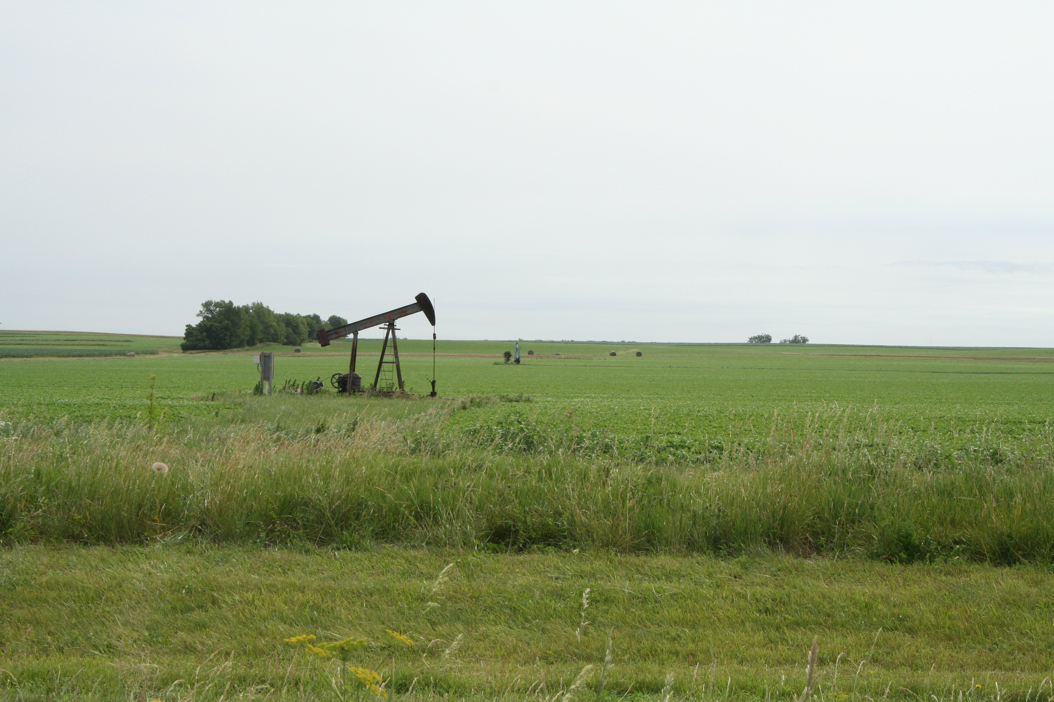 Harristown_Township_Illinois_Oil_Wells